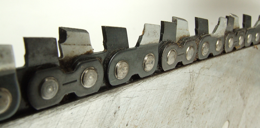 A section of "scratcher" chain on a chainsaw bar